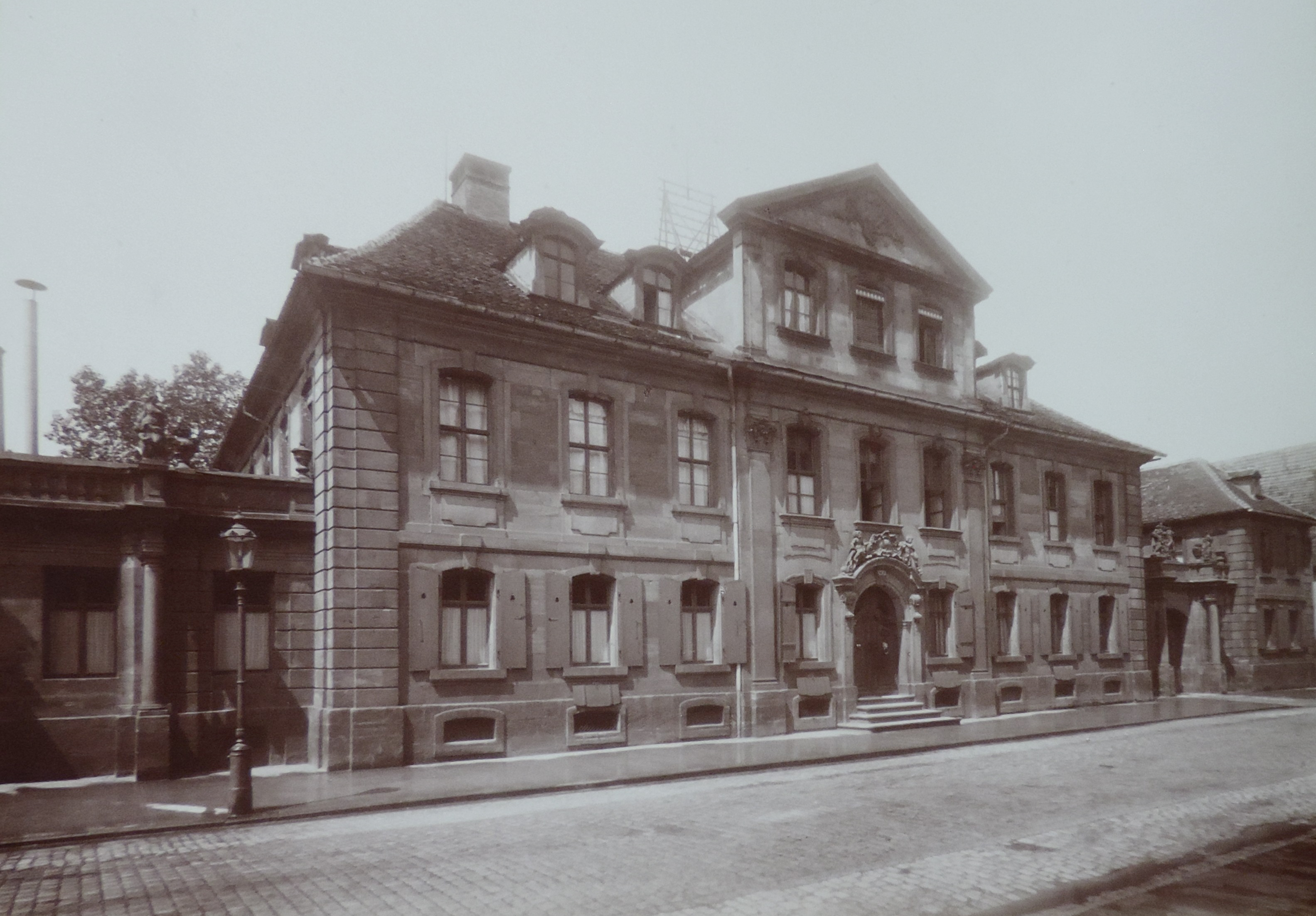 Views and photos of Bayreuth, Germany, gifted to Ferdinand I of Bulgaria to commemorate his 25-year rule. A house from 1754.